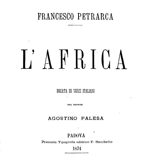 Book cover of Italian version of Petrarch's "Africa"